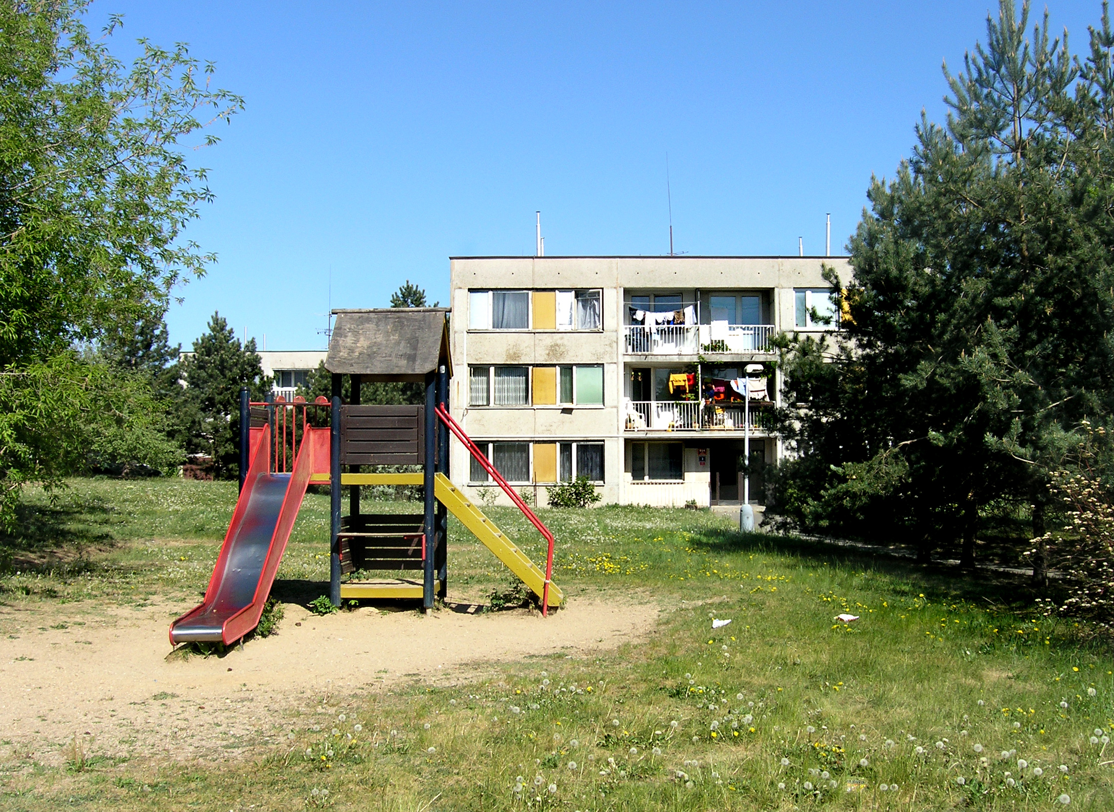 South-east part of Jižní Město, Prague